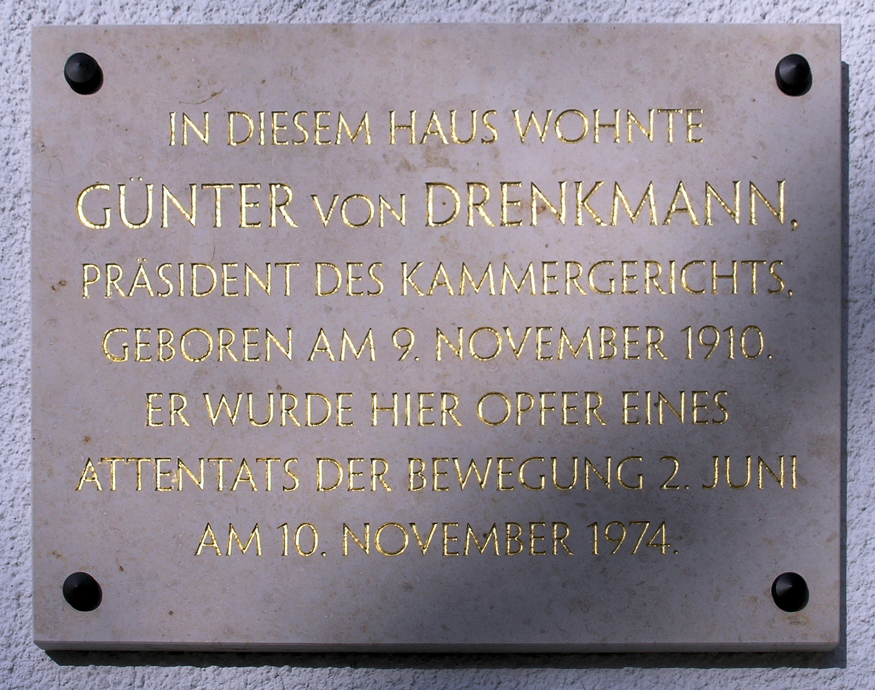 Memorial plaque, Günter von Drenkmann, Bayernallee 10, Berlin-Westend, Germany Koordinate:52°30′46″N 13°15′50″E / 52.51278°N 13.26389°E